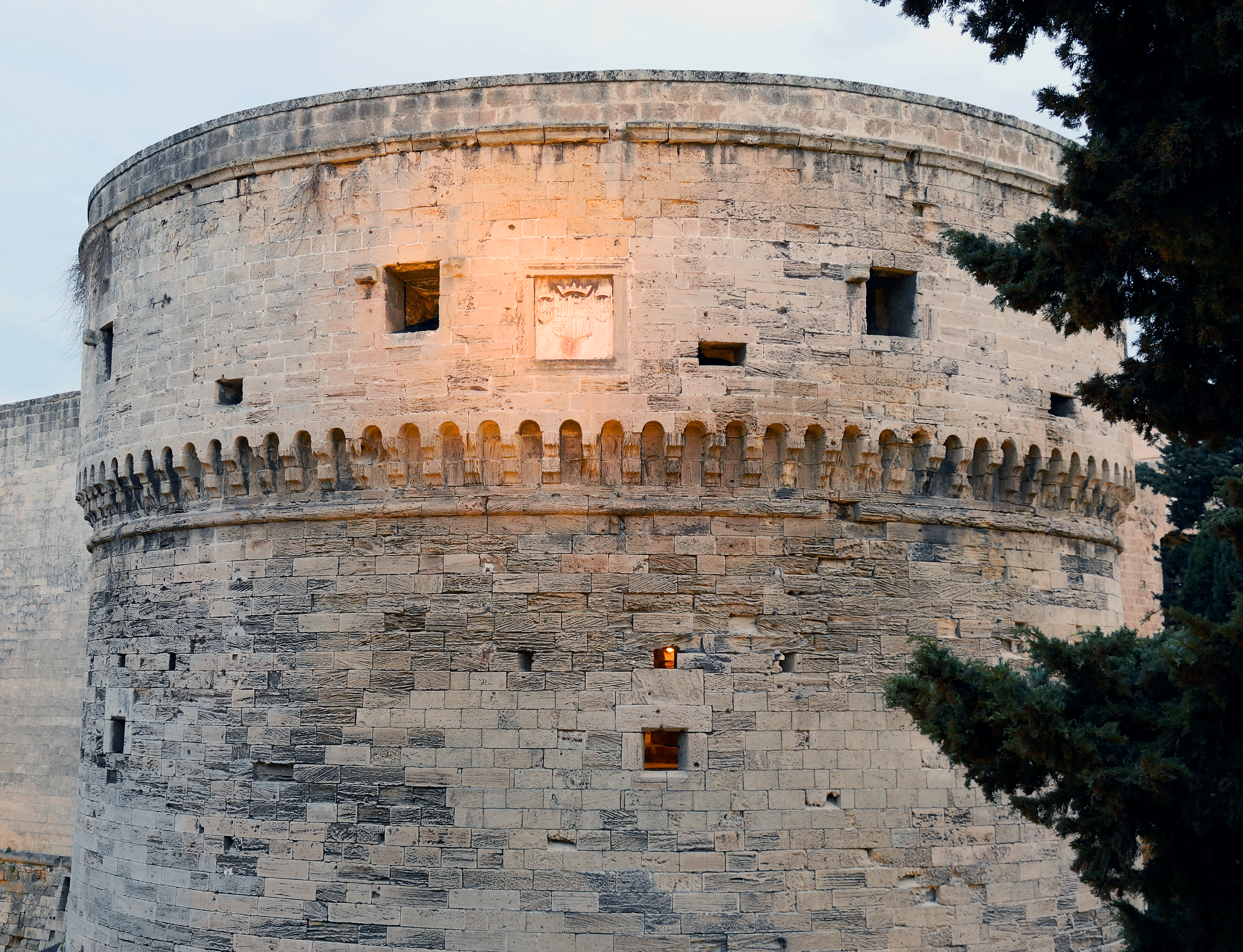 Tower of the Annunziata of the Aragonese Castle in Taranto